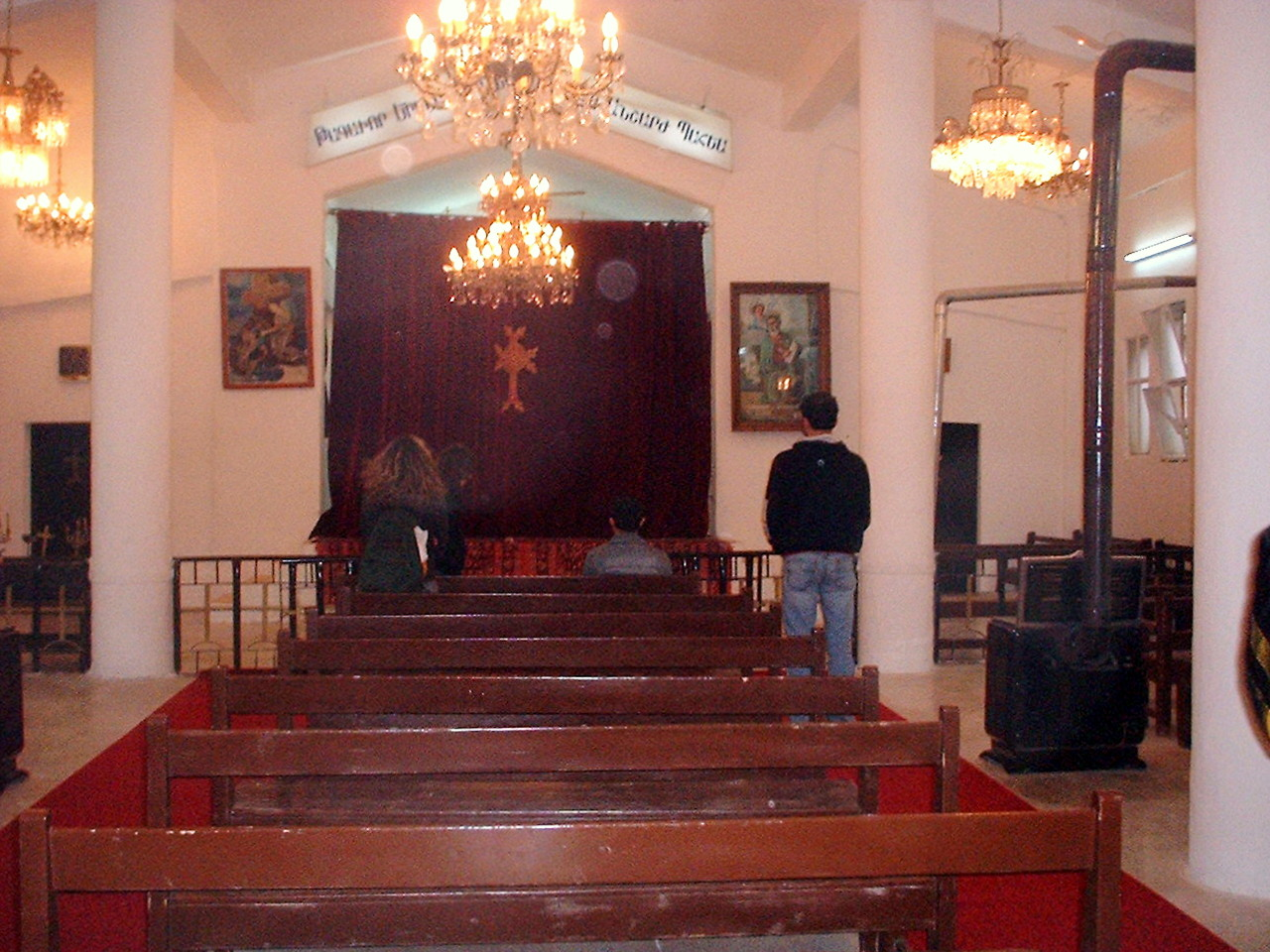 Tel Abyad Armenian church